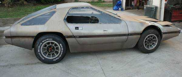 This is the very car that was on the cover of a 1982 issue of Mechanix Illustrated and featured in the film Total Recall. This photo was taken December 2013.